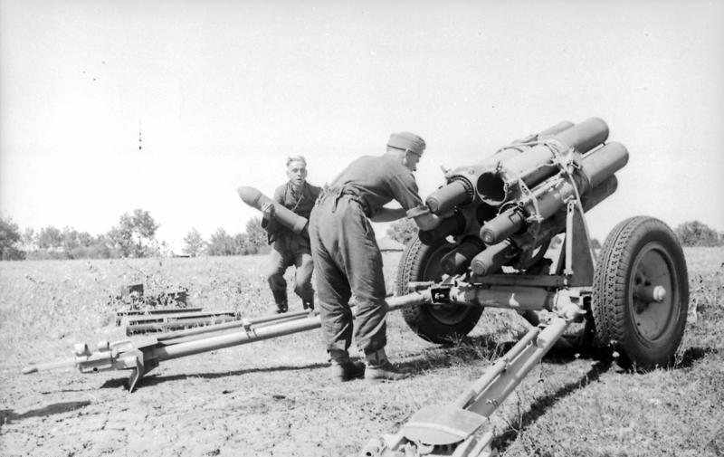 Information added by Wikimedia users.